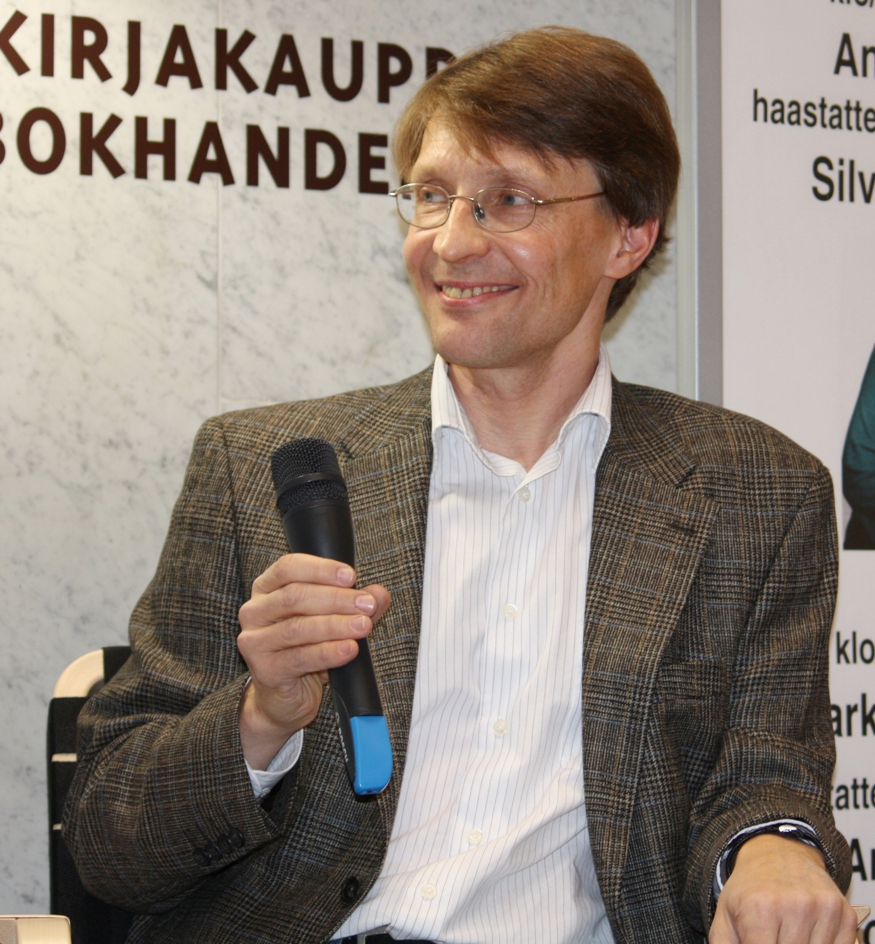 Finnish writer Markus Nummi in The Academic Bookstore (Akateeminen kirjakauppa) in Helsinki.